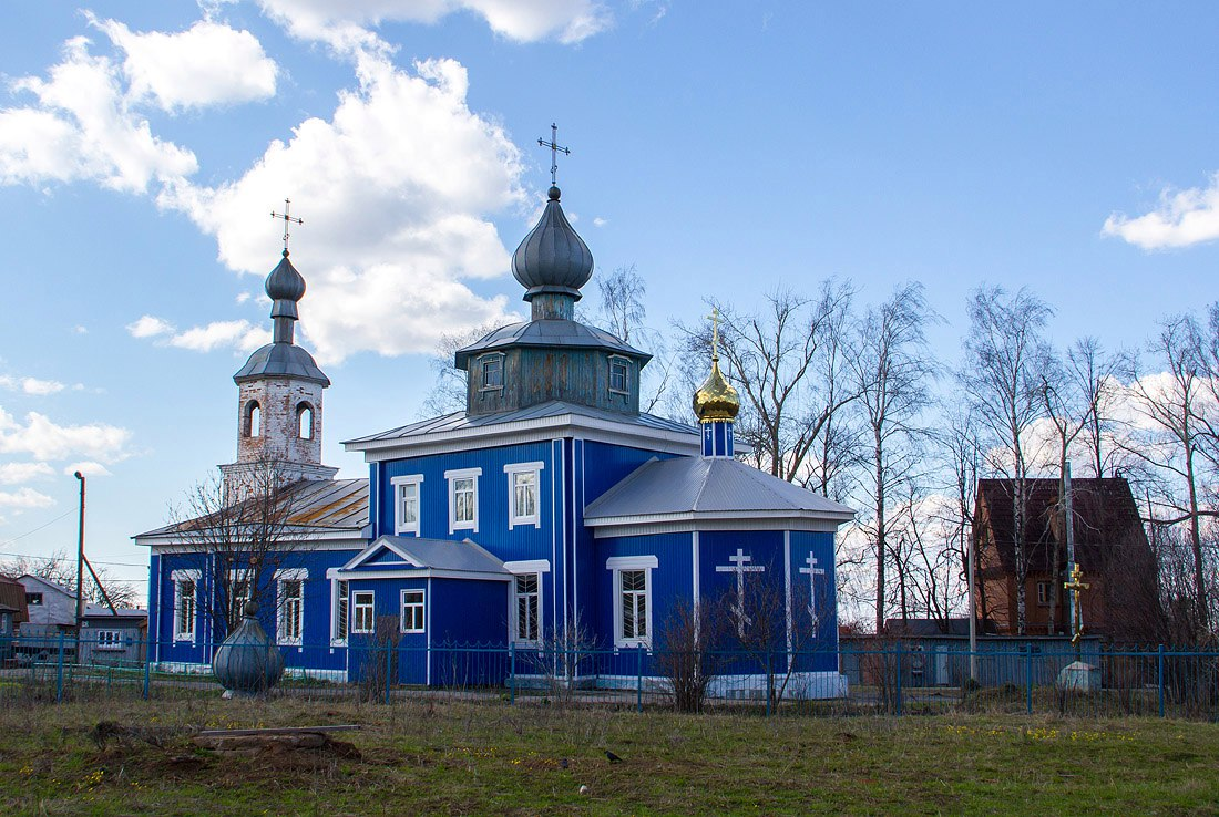 Church of the Nativity of Christ (Cheboksarsky District). Built in 1900 Чӑвашла: Христос Раштавĕн храмĕ (Хыркасси, Шупашкар районĕ). 1900